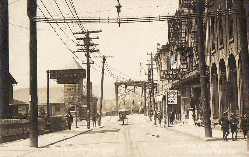 View of Water Street, Pittston, Pennsylvania. At left is the Lehigh Valley Railroad Station, demolished in 1964.